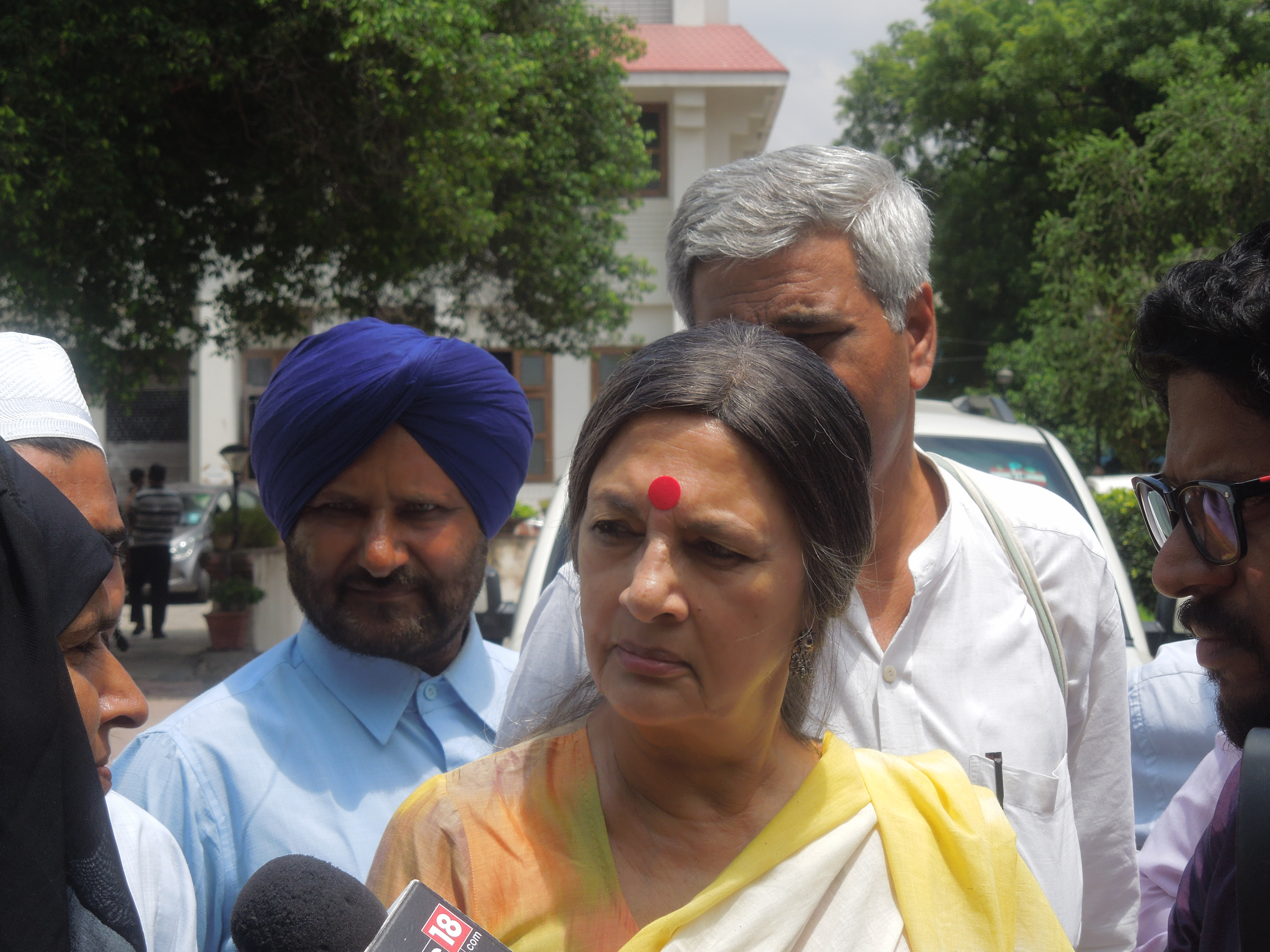 Brinda Karat is a communist politician from India